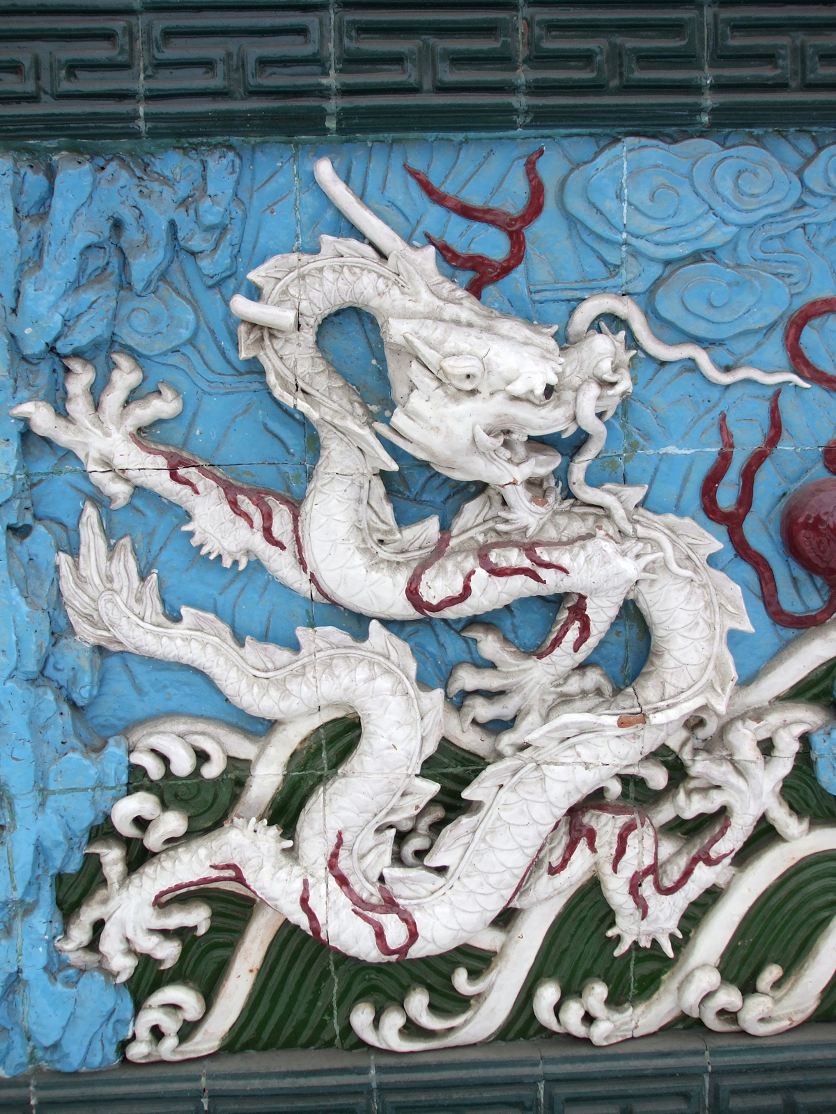 White china dragon in the China garden (St.Petersburg)